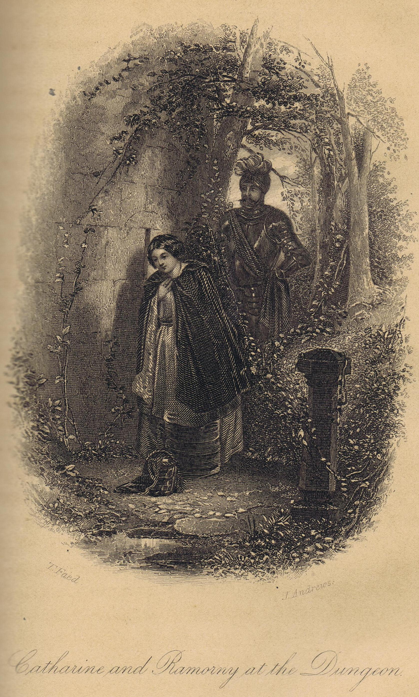 Illustration from 1859, found in 1872 edition published by James R. Osgood and Company, Boston